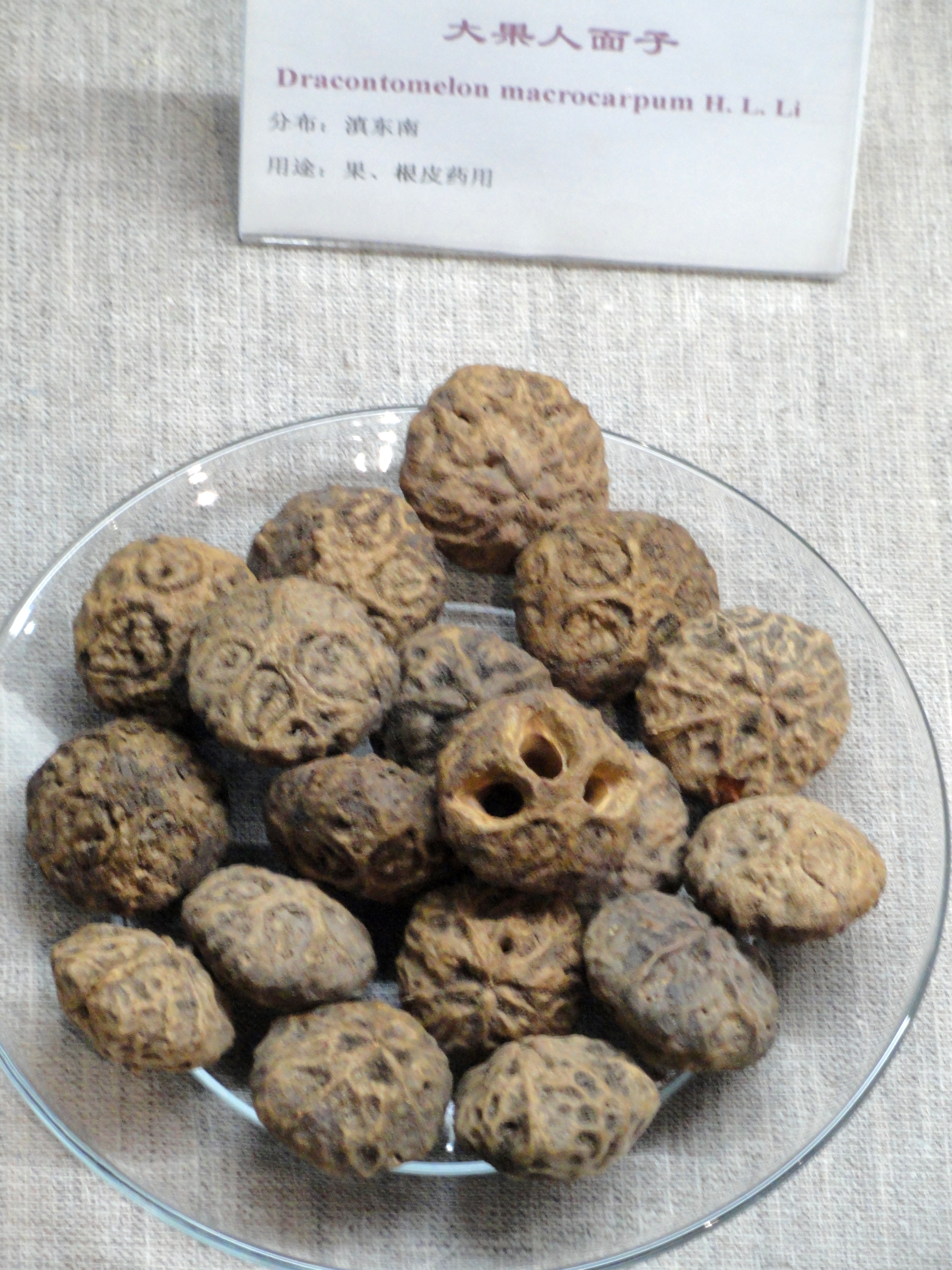 Seeds exhibited in the Kunming Botanical Garden, Kunming, Yunnan, China.